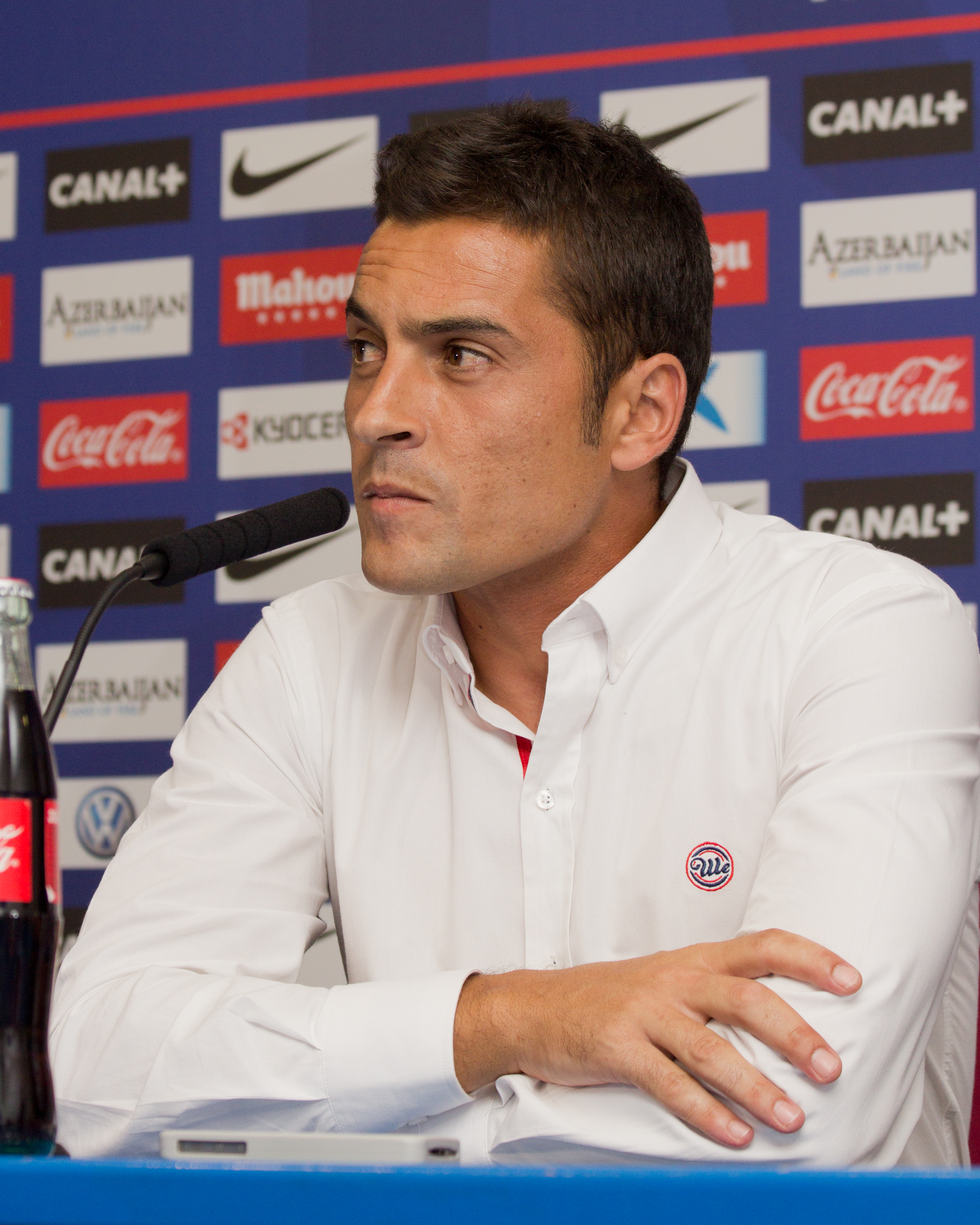 Francisco Javier Rodríguez Vílchez, coach of Ud Almería, during a press conference.